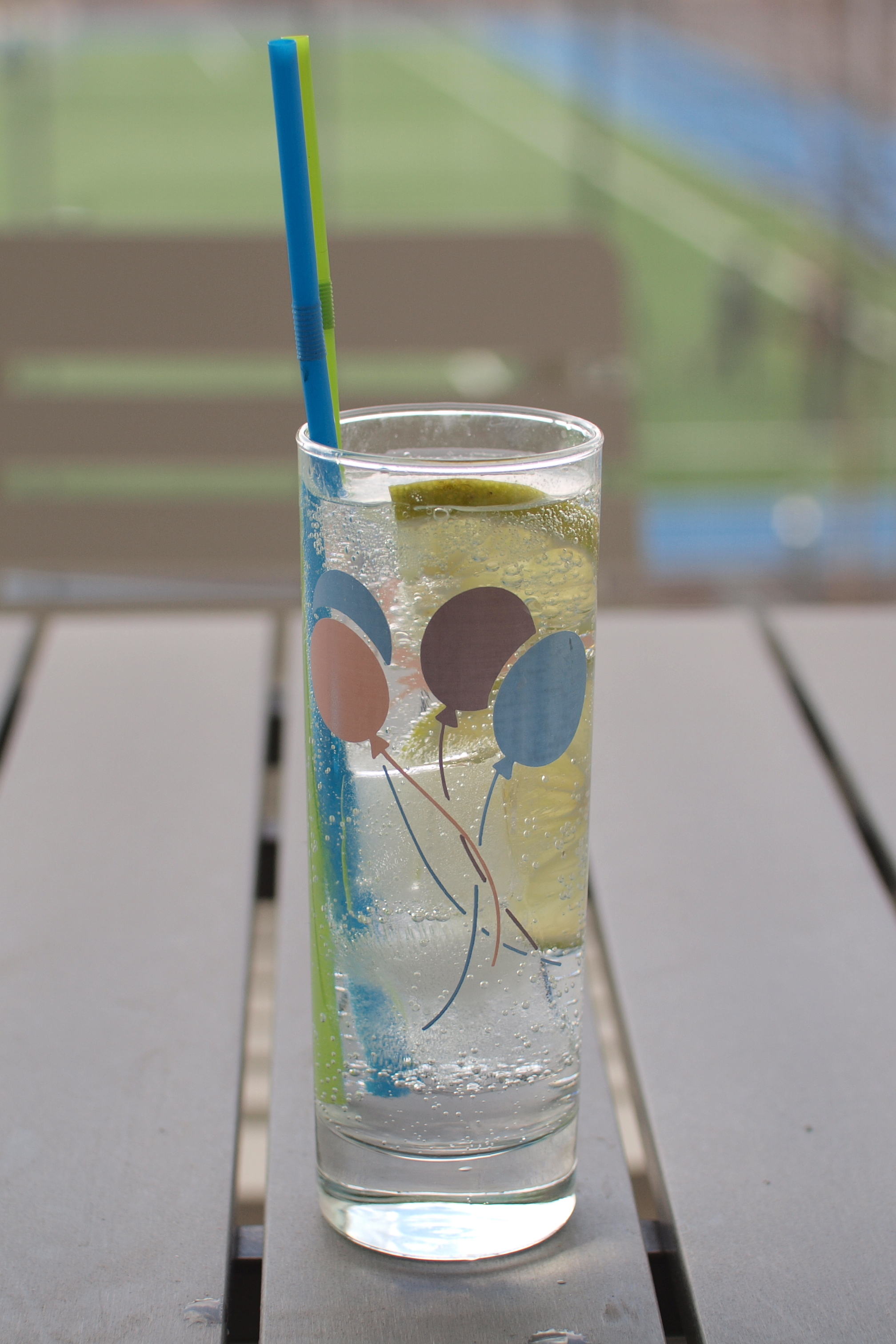 A glass of self-made gin and tonic, made from mostly equal measures of Bombay Sapphire London Dry Gin and Schweppes Indian Tonic, along with ice cubes and lime slices, served in a children's party lemonade glass with two straws for easier sipping.